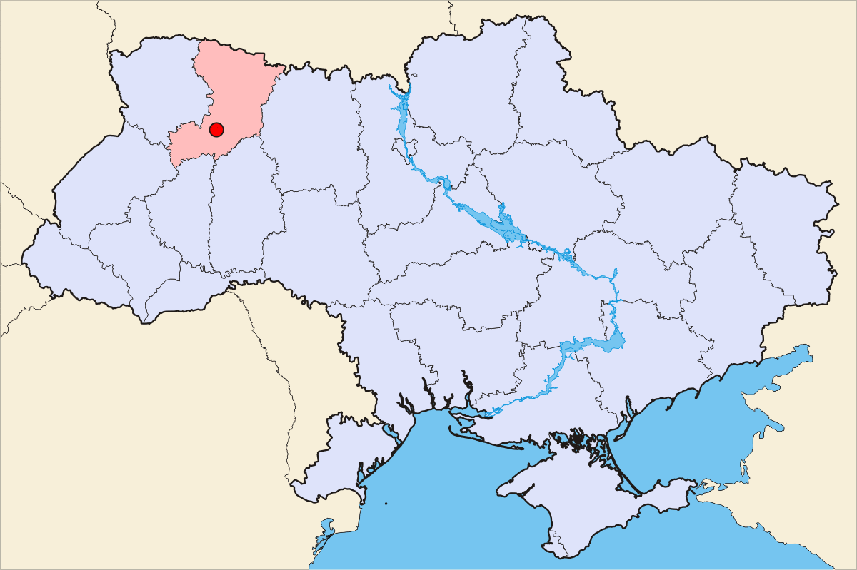 Description = Riwne geographical position Source = own work, Skluesener Date = 15.01.2006 Author = Skluesener Credits = Colours chosen according to a map of steschke